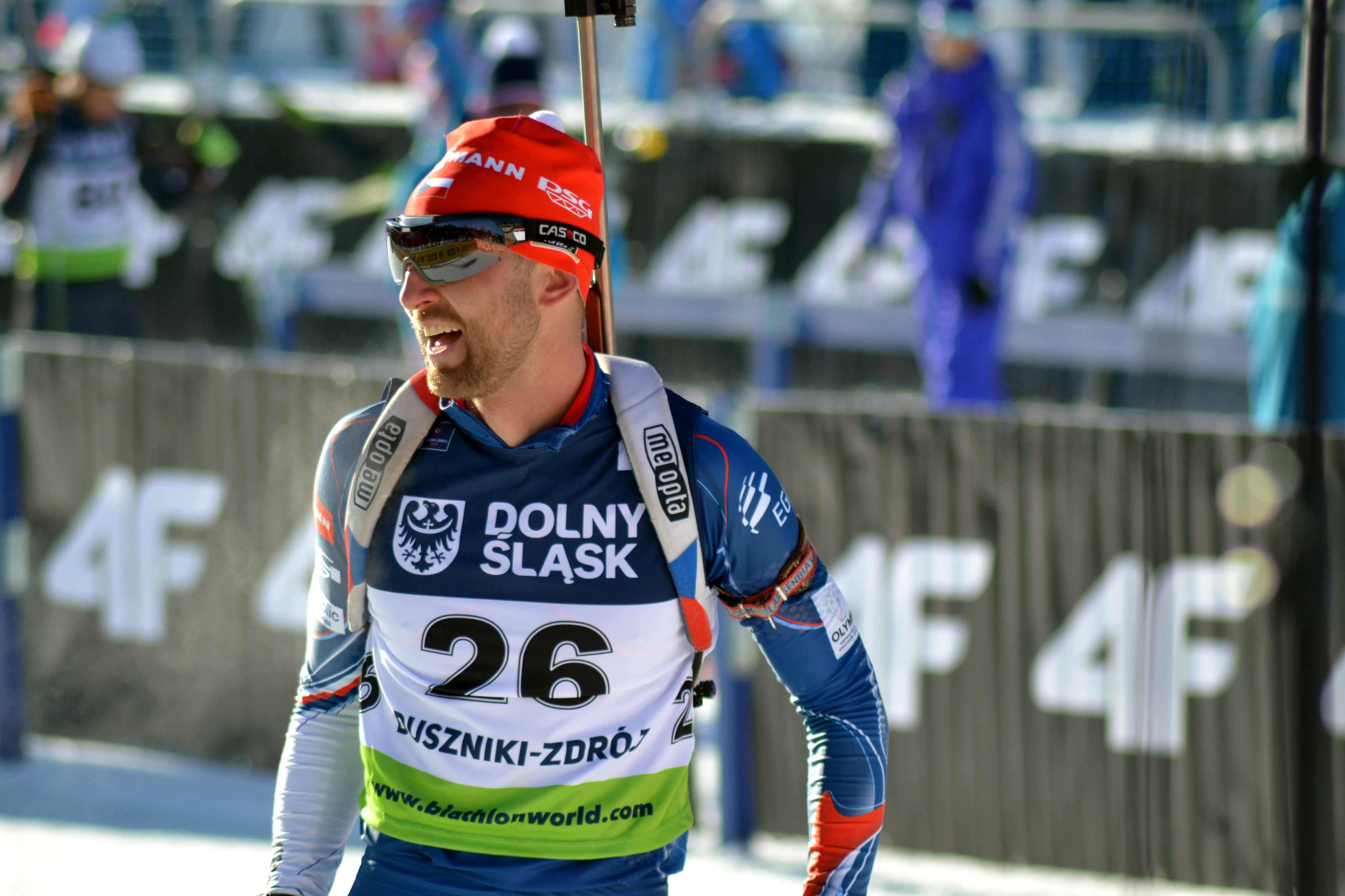 Open European Championships Biathlon 2017, Sprint Men's race, held on January 27th.